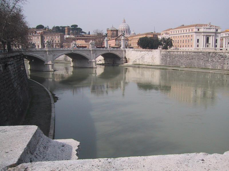 View of Tiber and the Vatican State Picture taken by User:Abelson in March 2004.